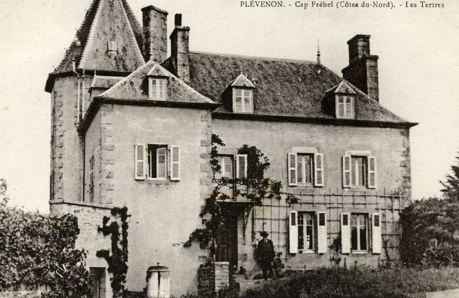 Chateau des Tertres